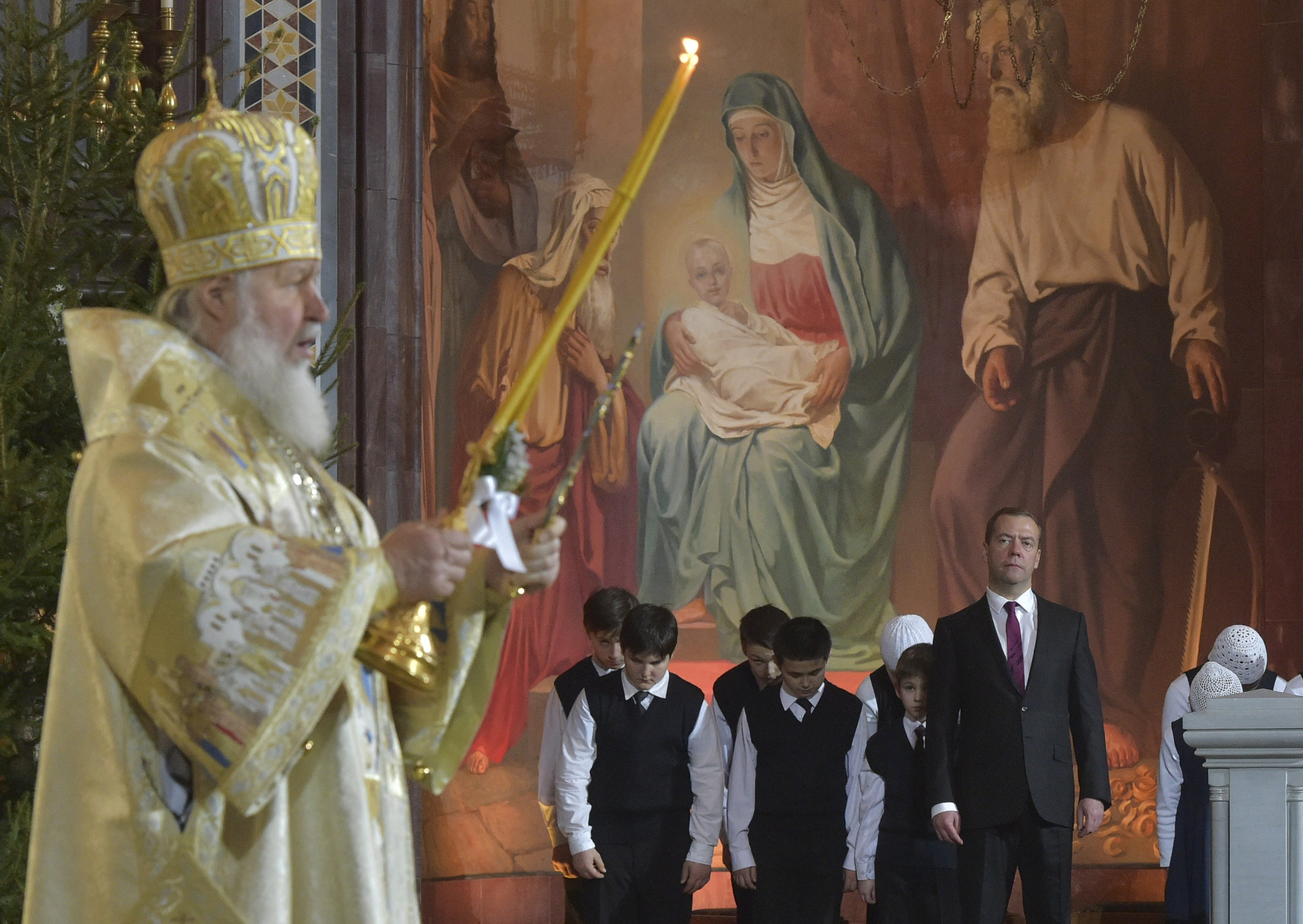 Dmitry Medvedev at Christmas service at Cathedral of Christ the Saviour in Moscow 2016-01-07